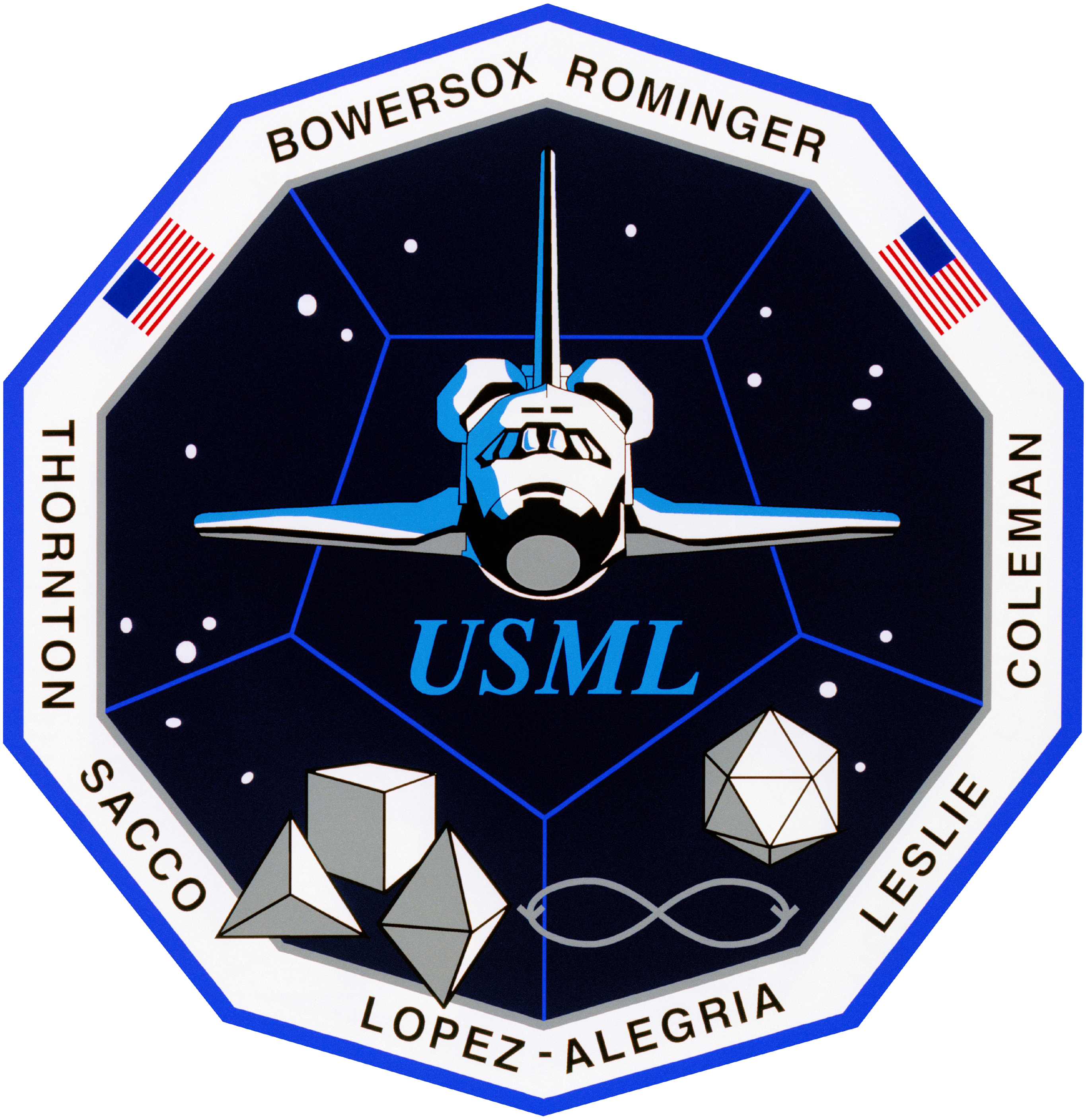 The crew patch of STS-73, the second flight of the United States Microgravity Laboratory (USML-2), depicts the Space Shuttle Columbia in the vastness of space. In the foreground are the classic regular polyhedrons that were investigated by Plato and later Euclid. The Pythagoreans were also fascinated by the symmetrical three-dimensional objects whose sides are the same regular polygon. The tetrahedron, the cube, the octahedron, and the icosahedron were each associated with the Natural Elements of that time: fire (on this mission represented as combustion science); Earth (crystallography), air and water (fluid physics). An additional icon shown as the infinity symbol was added to further convey the discipline of fluid mechanics. The shape of the emblem represents a fifth polyhedron, a dodecahedron, which the Pythagoreans thought corresponded to a fifth element that represented the cosmos.